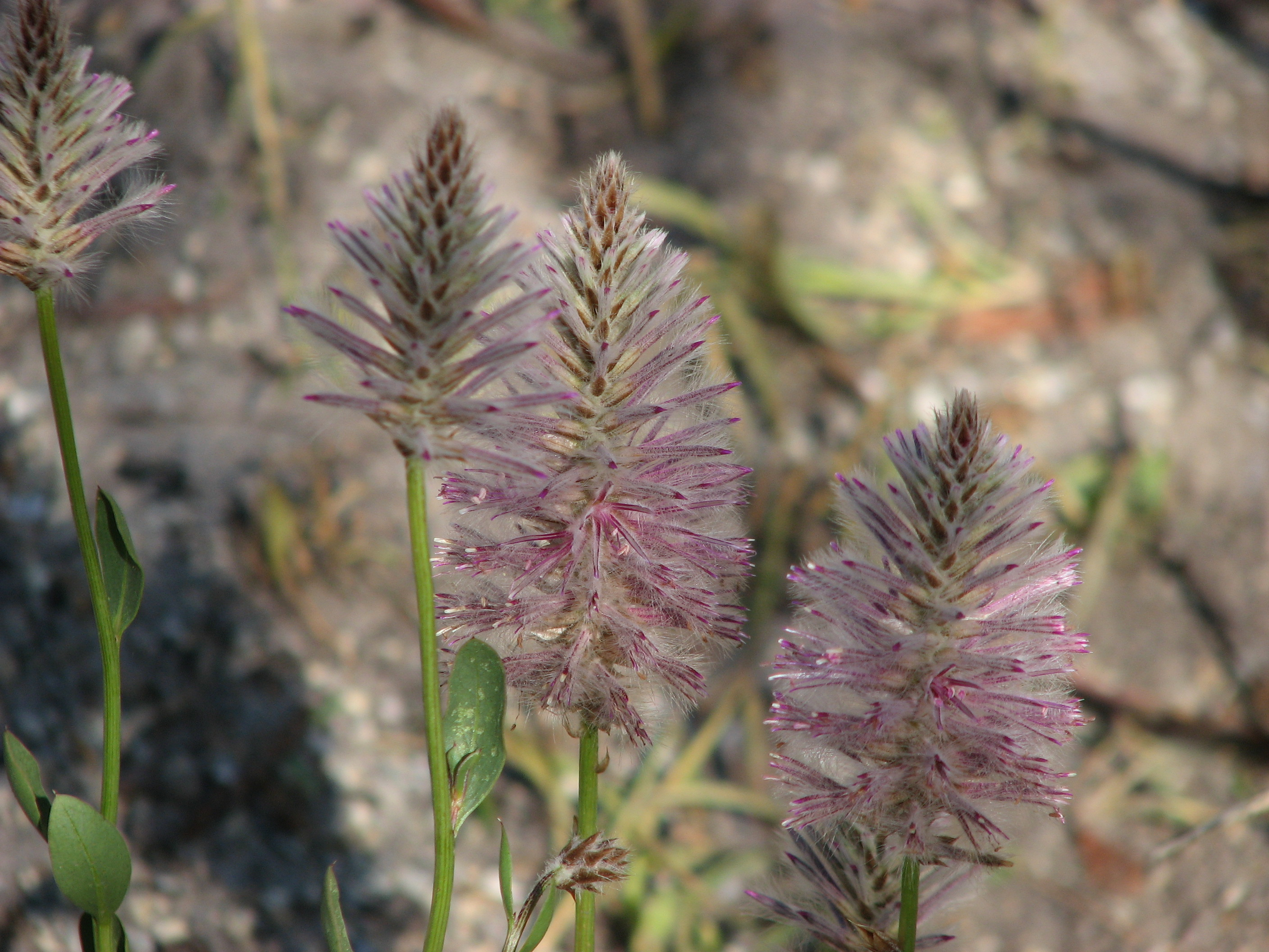 Ptilotus nobilis 'Passion'(cultivated, labelled), Maranoa Gardens, Balwyn, Victoria, Australia